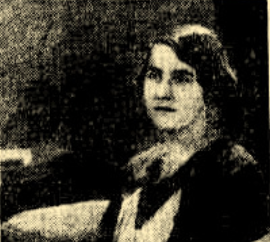 Lilian Ross Fraser botanist in the Sydney Sun, Sydney, New South Wales Thu, May 20, 1937 – Page 41